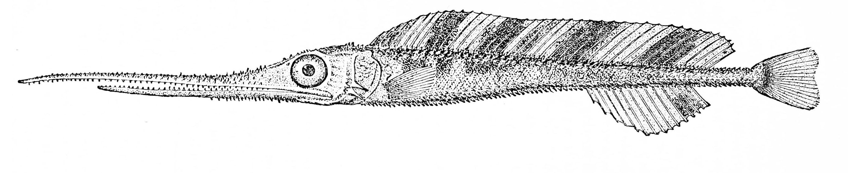 Young swordfish